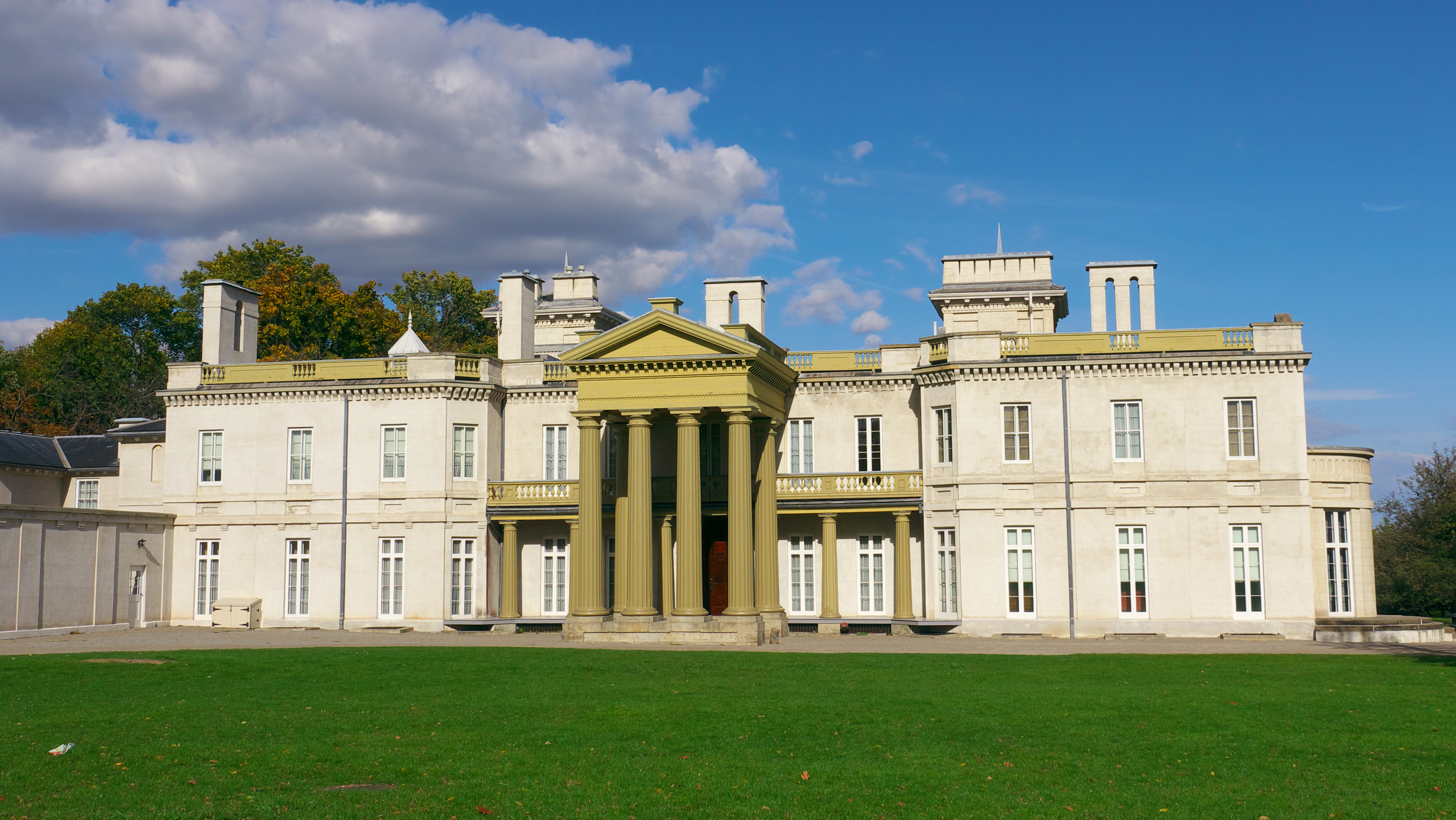 Dundurn Castle, now a museum operated by the City of Hamilton